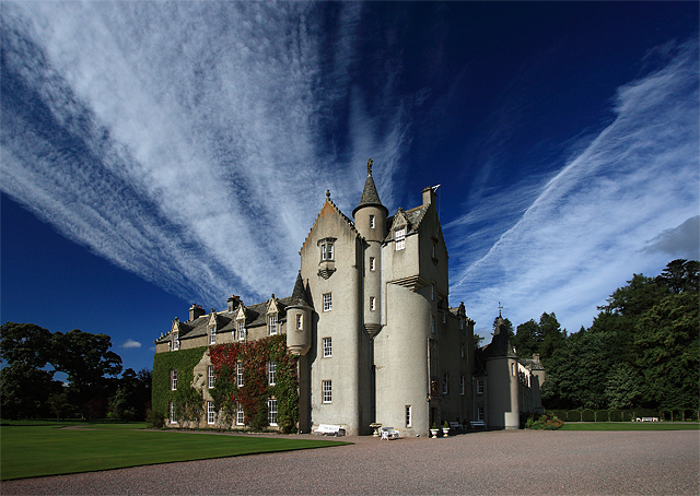 Ballindalloch Castle The original C16 Z plan tower house of Ballindalloch is at the heart of the magnificent Scots baronial mansion we see today. The transformation was commenced in the 1770s by General James Grant on his return from the rebellion in the American colonies.